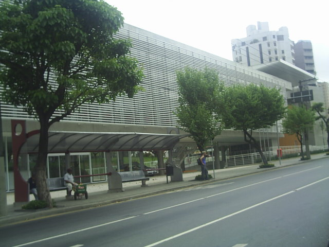 Goiás avenue, São Caetano do Sul.